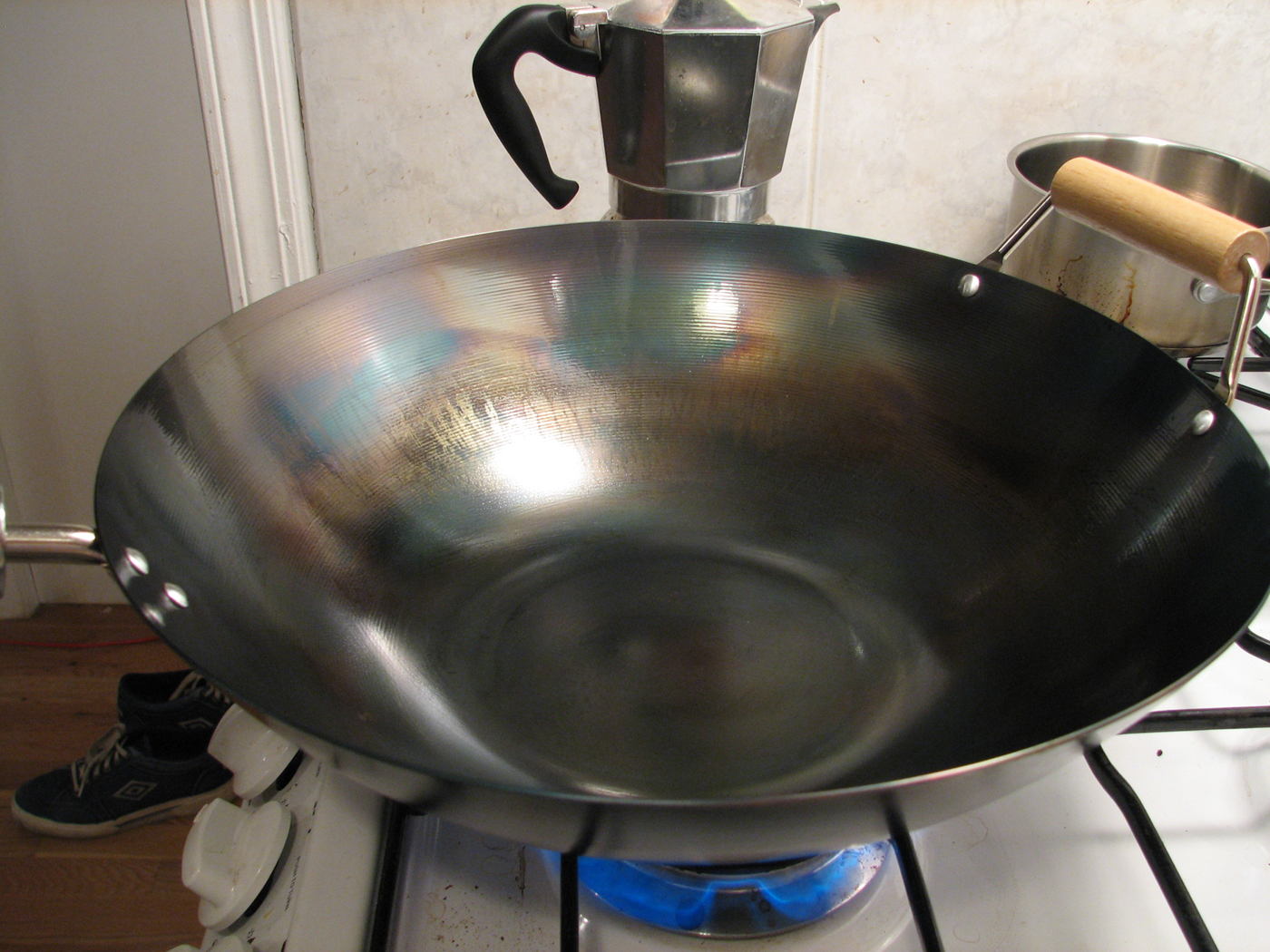 man, it was a lot of work seasoning this wok. But now omelettes slide around like dropped soap in a bathtub.